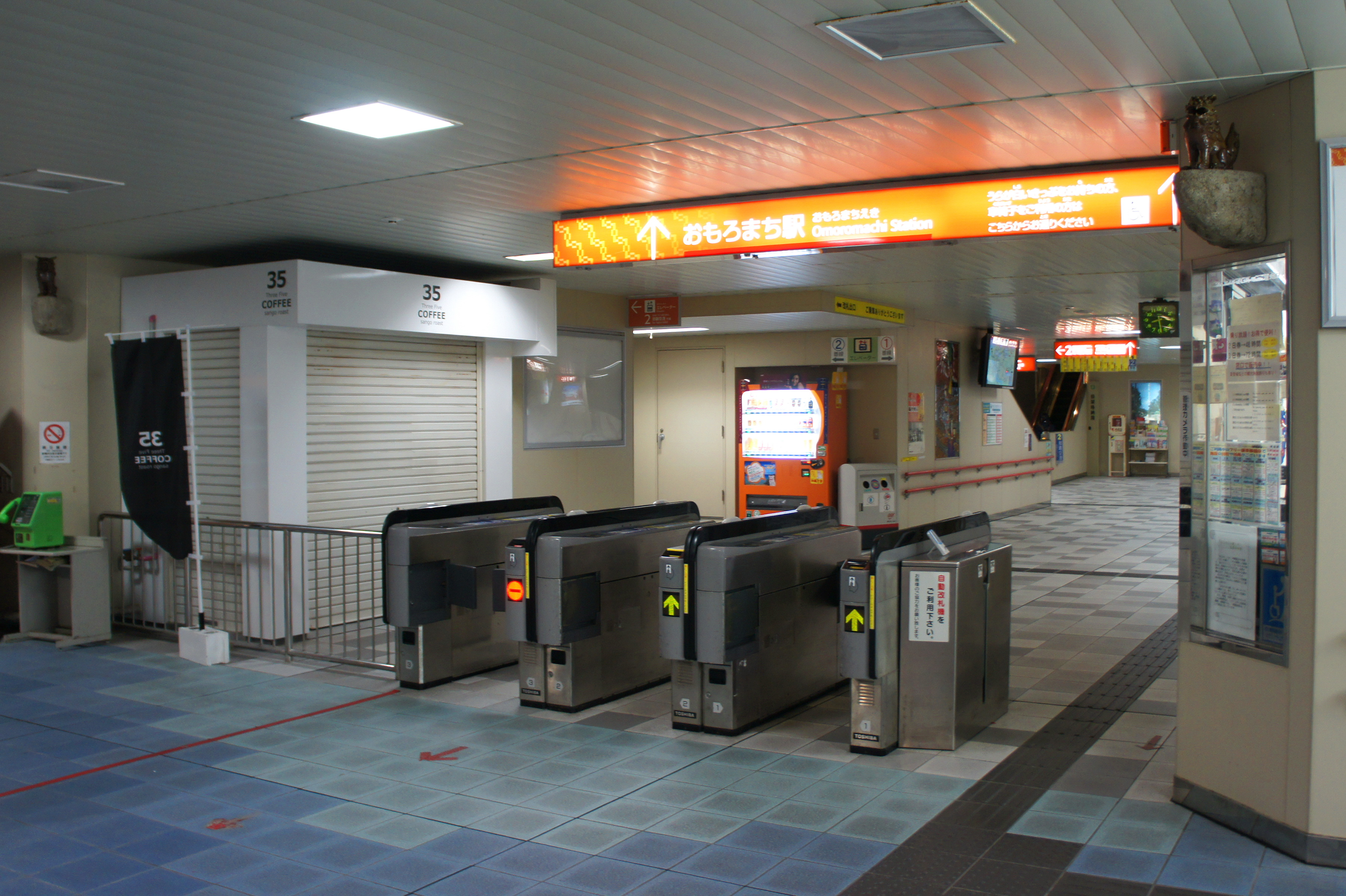 Okinawa City Monorail Line (Yui Rail), Entrance of Omoromachi Station (Okinawa)